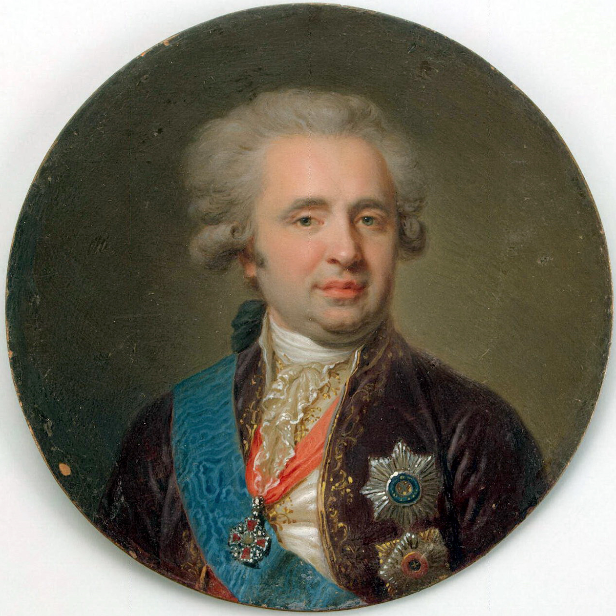 Portrait of Alexander Bezborodko (1747-1799)